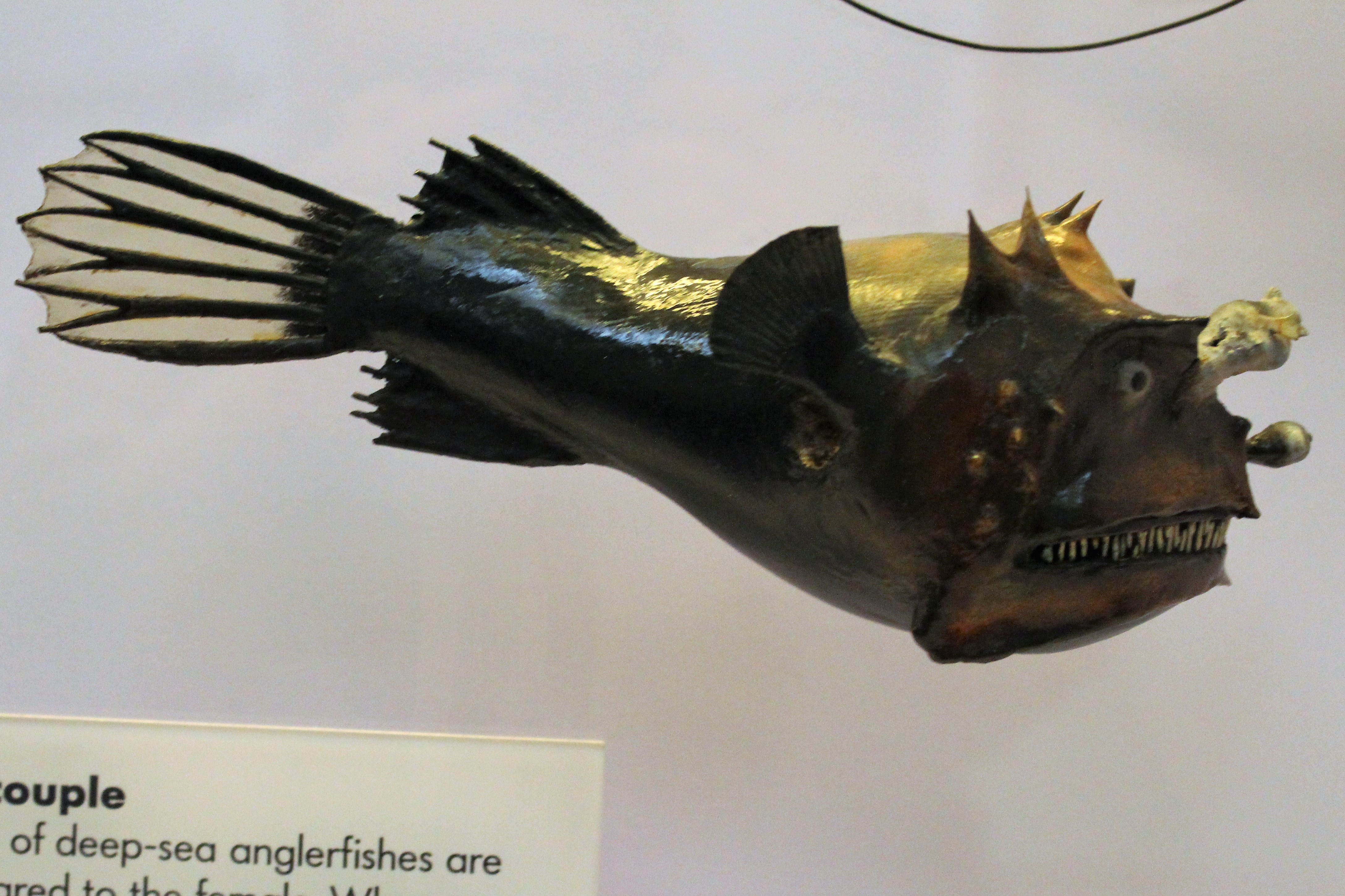 The model of a female Photocorynus spiniceps at the Natural History Museum in London, England.